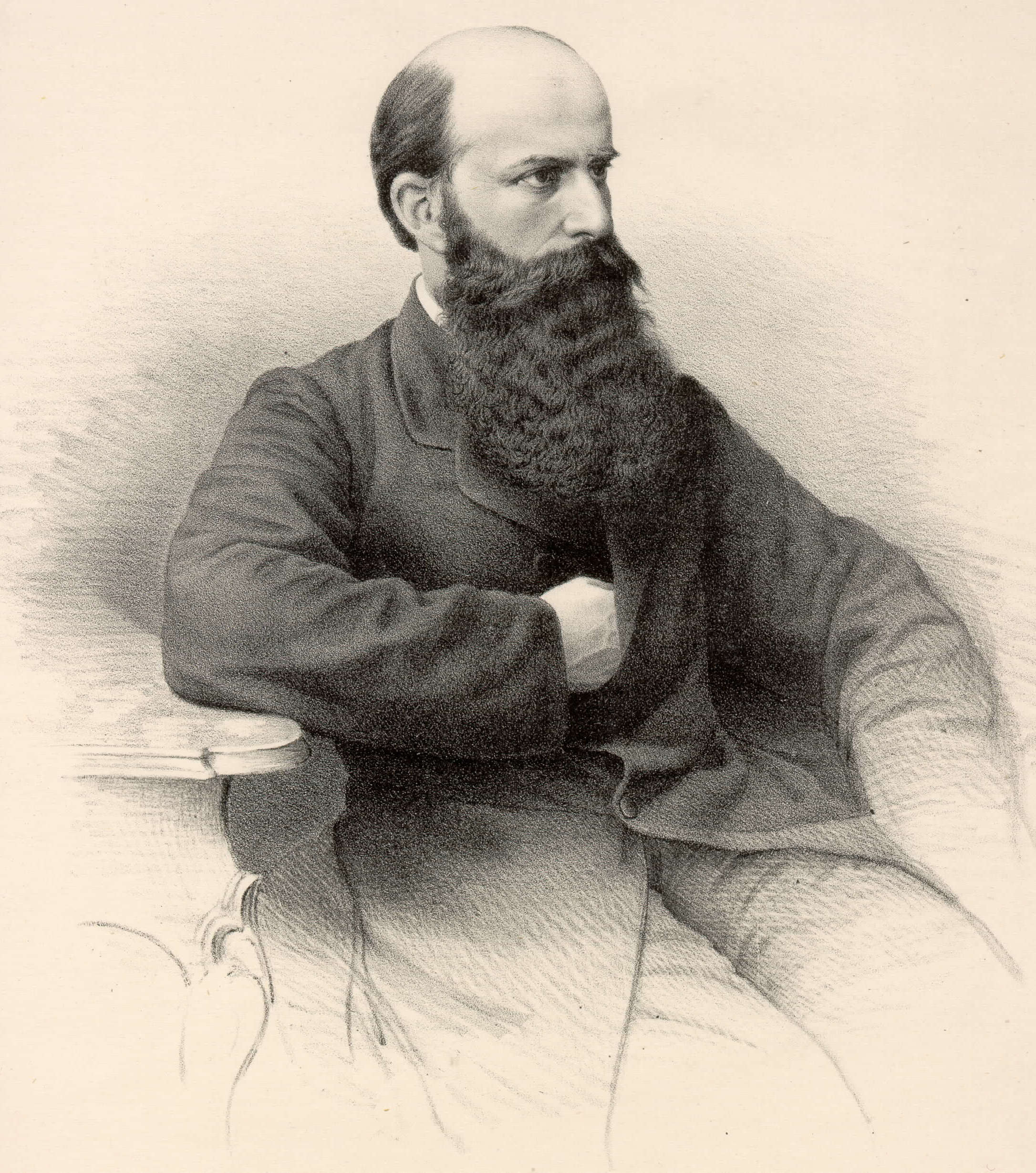 Lovro Toman (1818-1870), Slovene politician, poet and lawyer.